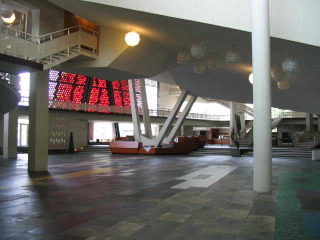 Description: Philharmonie in Berlin, built by Hans Scharoun. Inside view in to the foyer Source: self-made. I release it into the public domain.